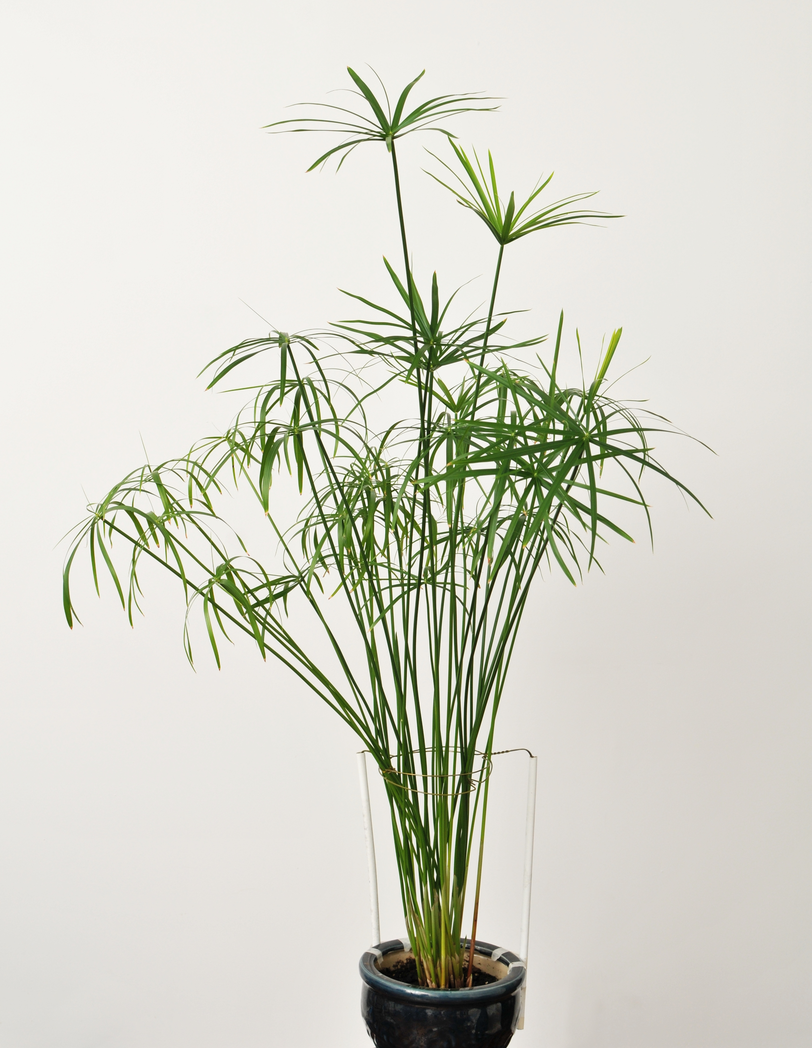 A potted umbrella papyrus (Cyperus alternifolius), approximately 1.2m tall, with whorls at the tips of the stalks about 30cm in diameter